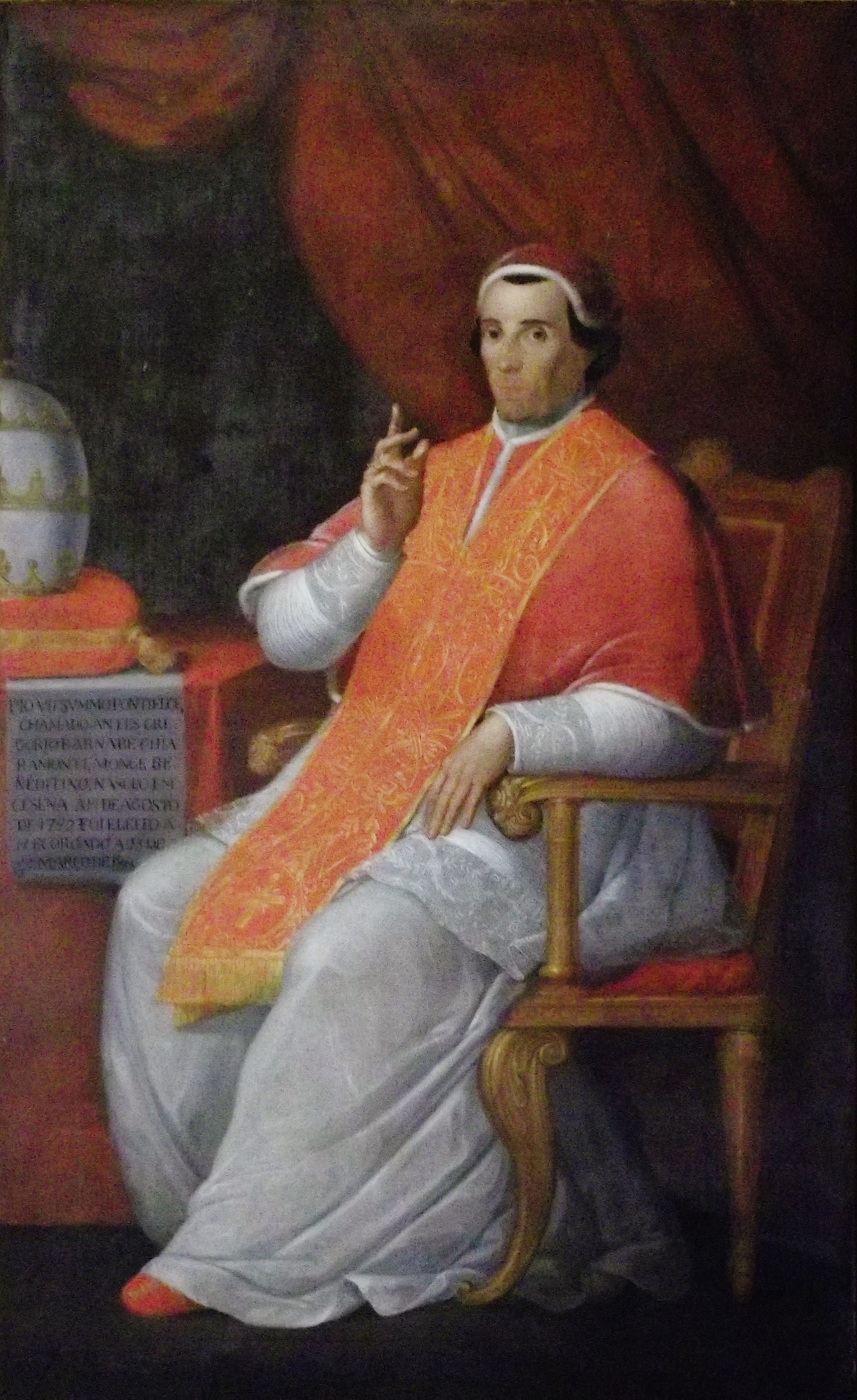 Portrait of Pope Pius VII, in the Monastery of Tibães, Braga, Portugal.